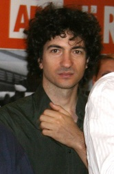 Davide Marengo, Italian film and TV series director